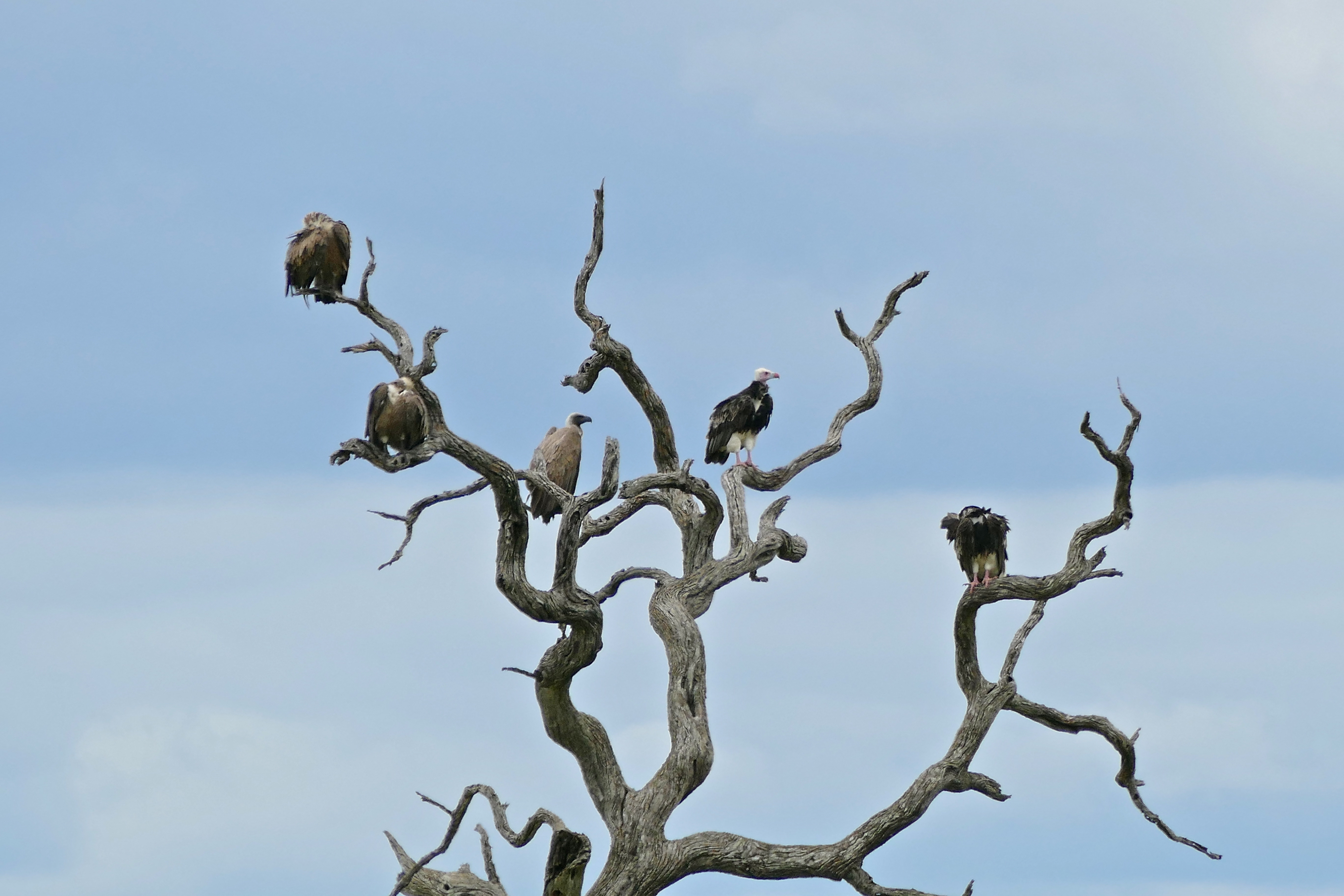 H7 Road East of Orpen, Kruger NP, SOUTH AFRICA